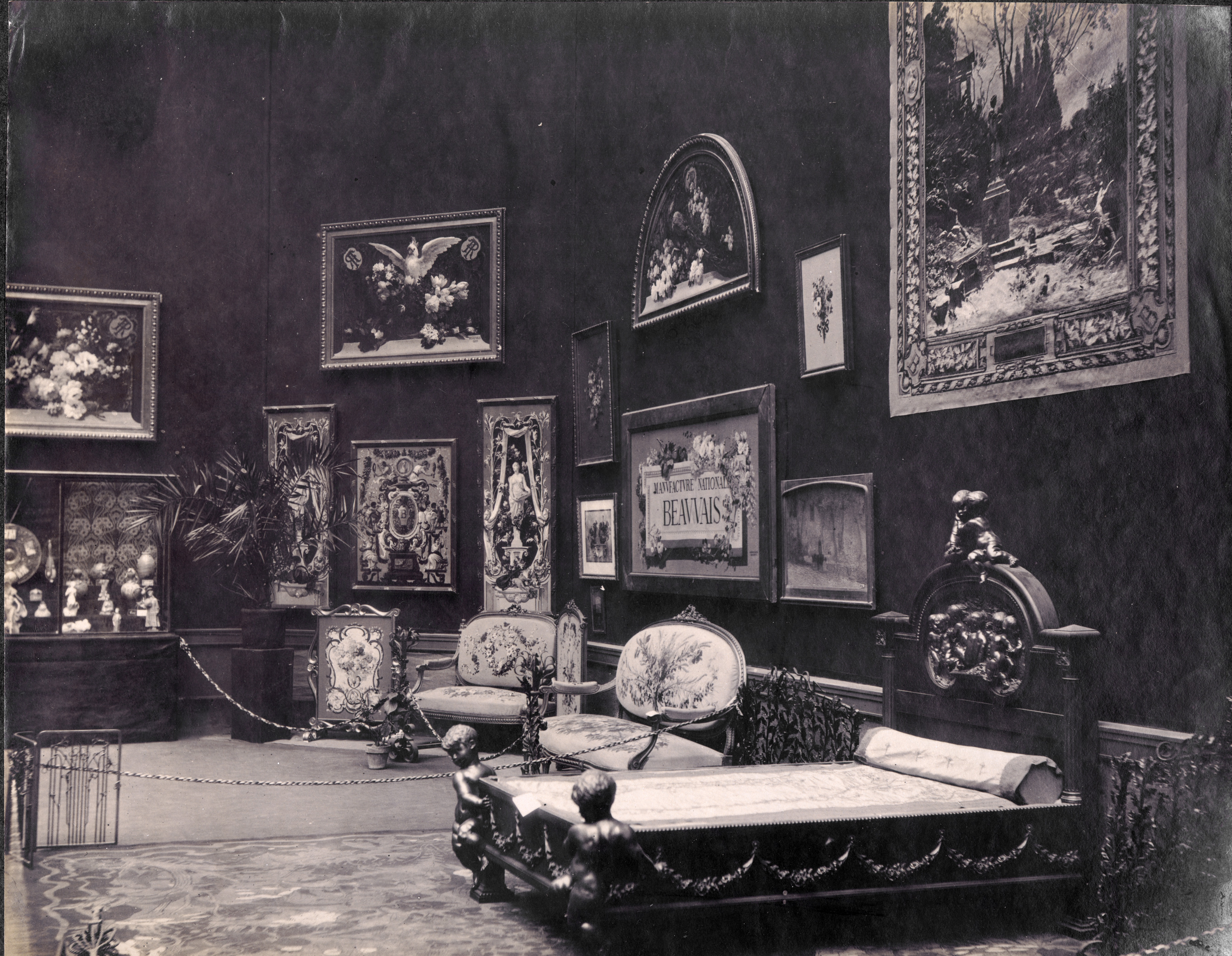 Title: French Section including the Manufacture National Beauvais in the Palace of Fine Arts at the 1904 World's Fair.